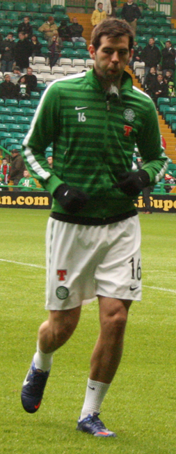 Players of Celtic F.C. before the match between Celtic F.C and ICT on 11/02/2012.